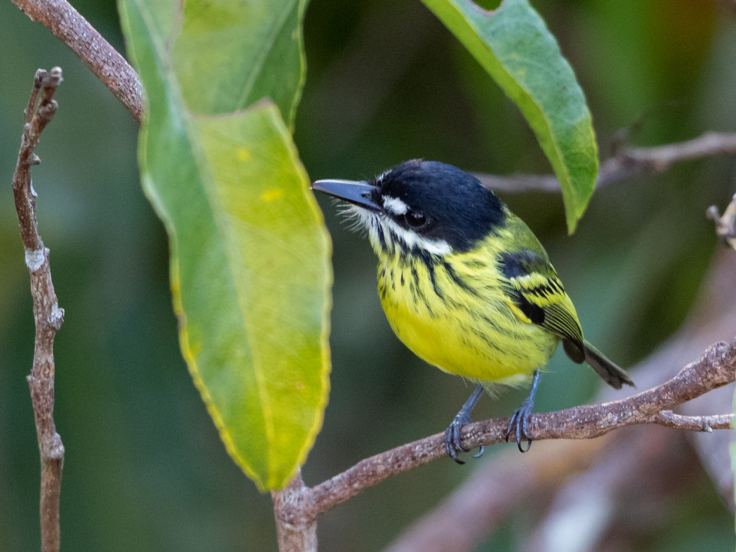 Painted Tody-Flycatcher; Botanic Garden Tower, Manaus, Amazonas, Brazil